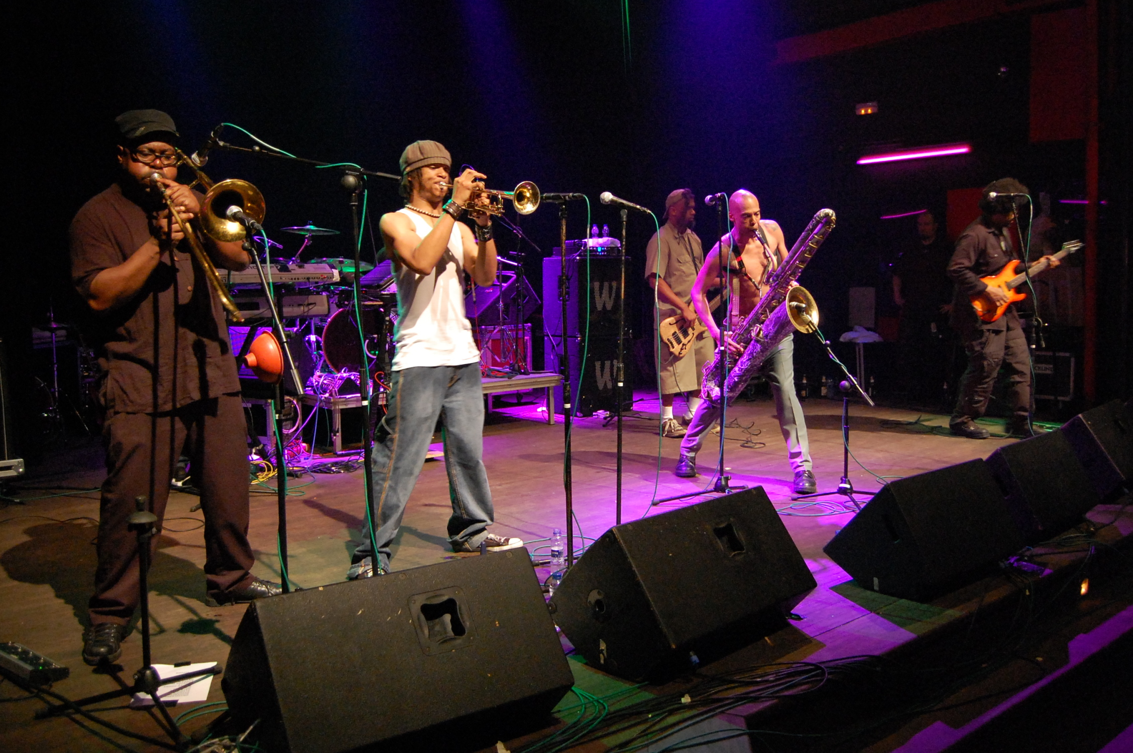 Fishbone